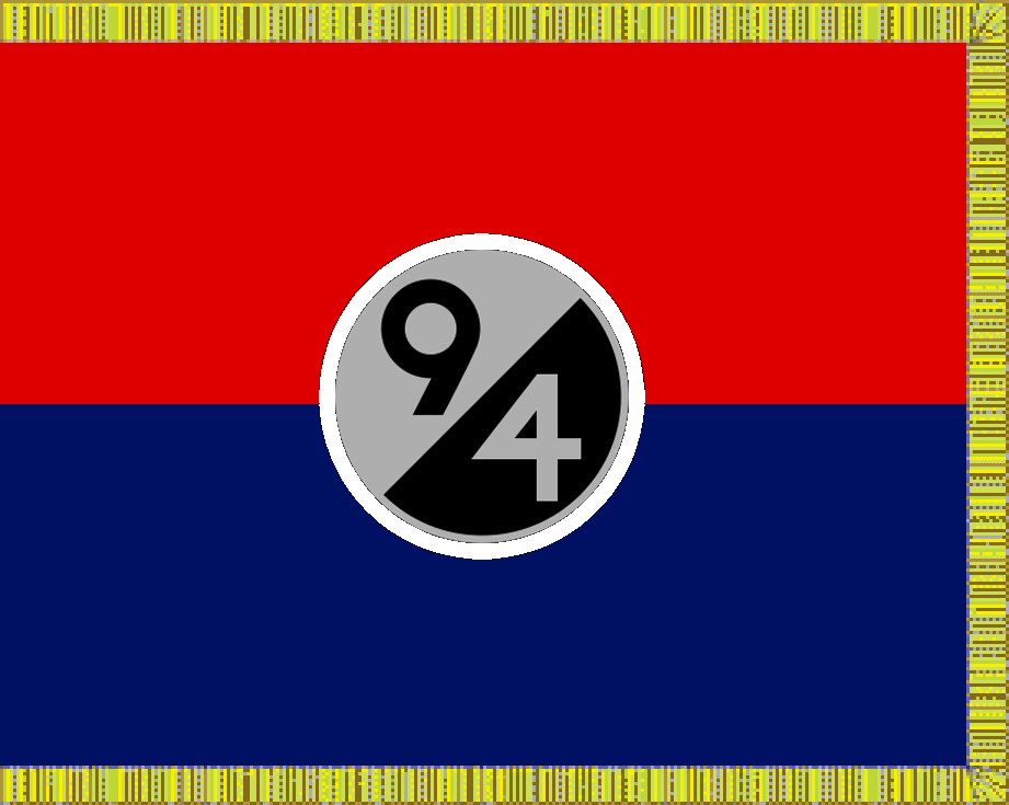 Distinguishing colour of the 94th Infantry Division (United States) in 1942-1956